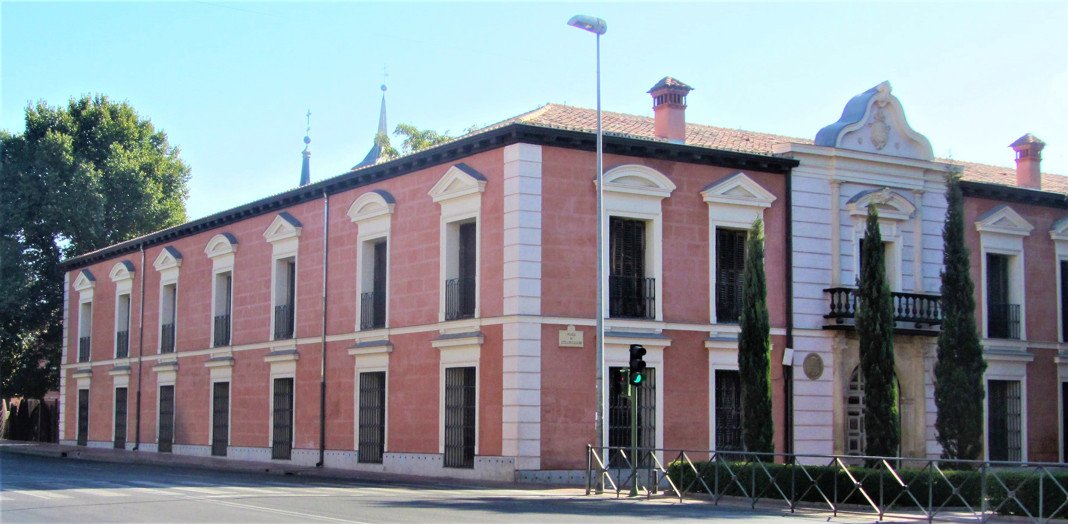 Palace "de los Casado" in Alcalá de Henares (Community of Madrid - Spain). It was the old Hospital of St. Luke and St. Nicholas.